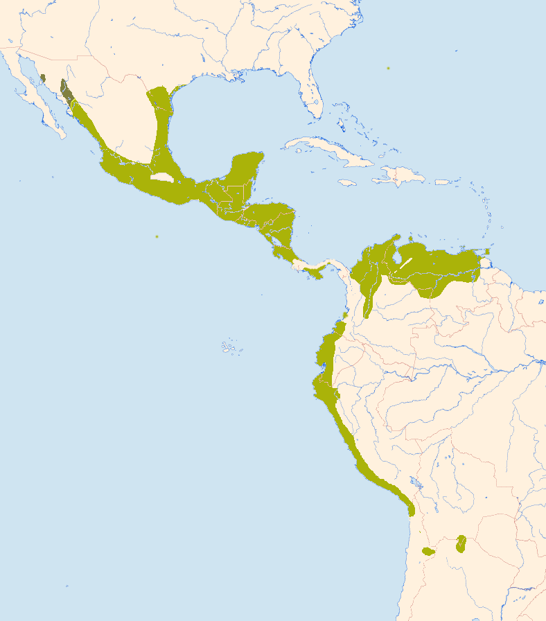 Grove-billed Ani - distribution map